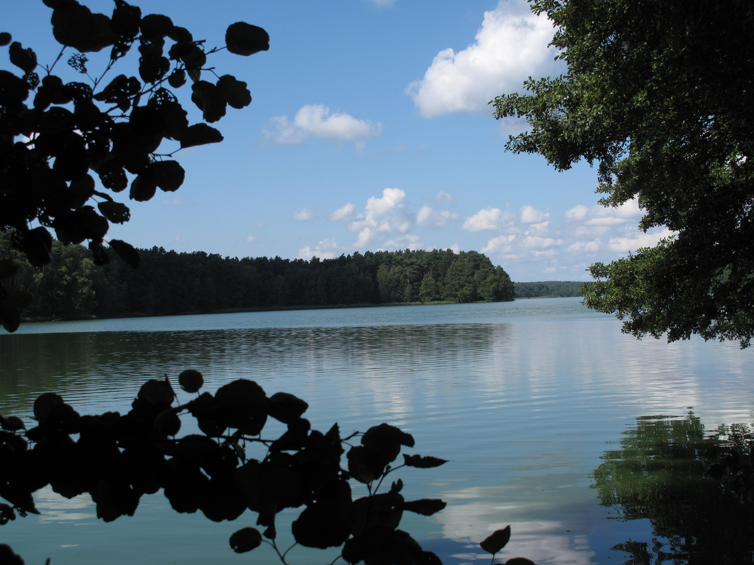 The Oelsener See is a lake in the District Oder-Spree, Brandenburg, Germany. The lake covers 0,94 km² and is situated in the Schlaube Valley Nature Park.